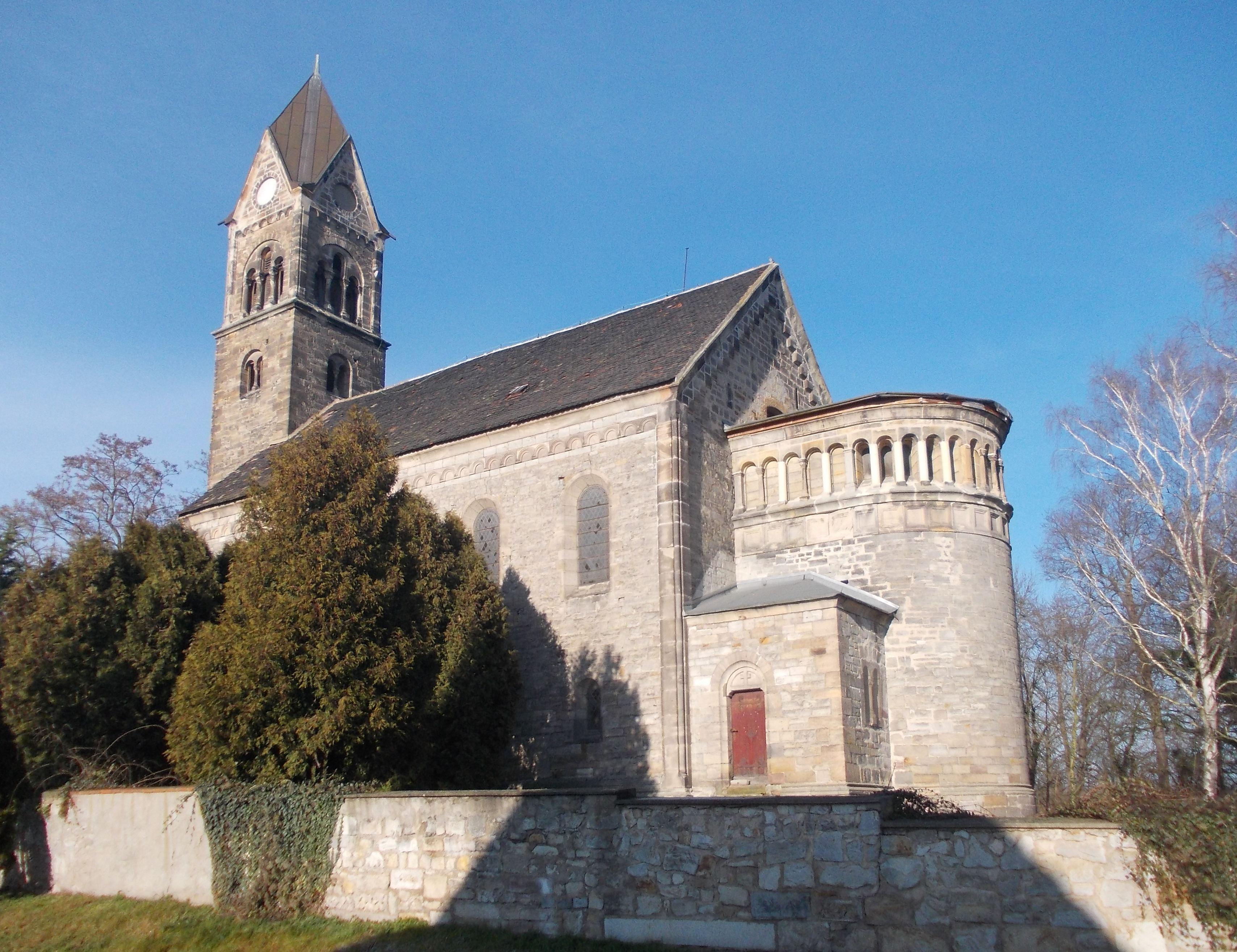 Bündorf church (Schkopau, district: Saalekreis, Saxony-Anhalt)